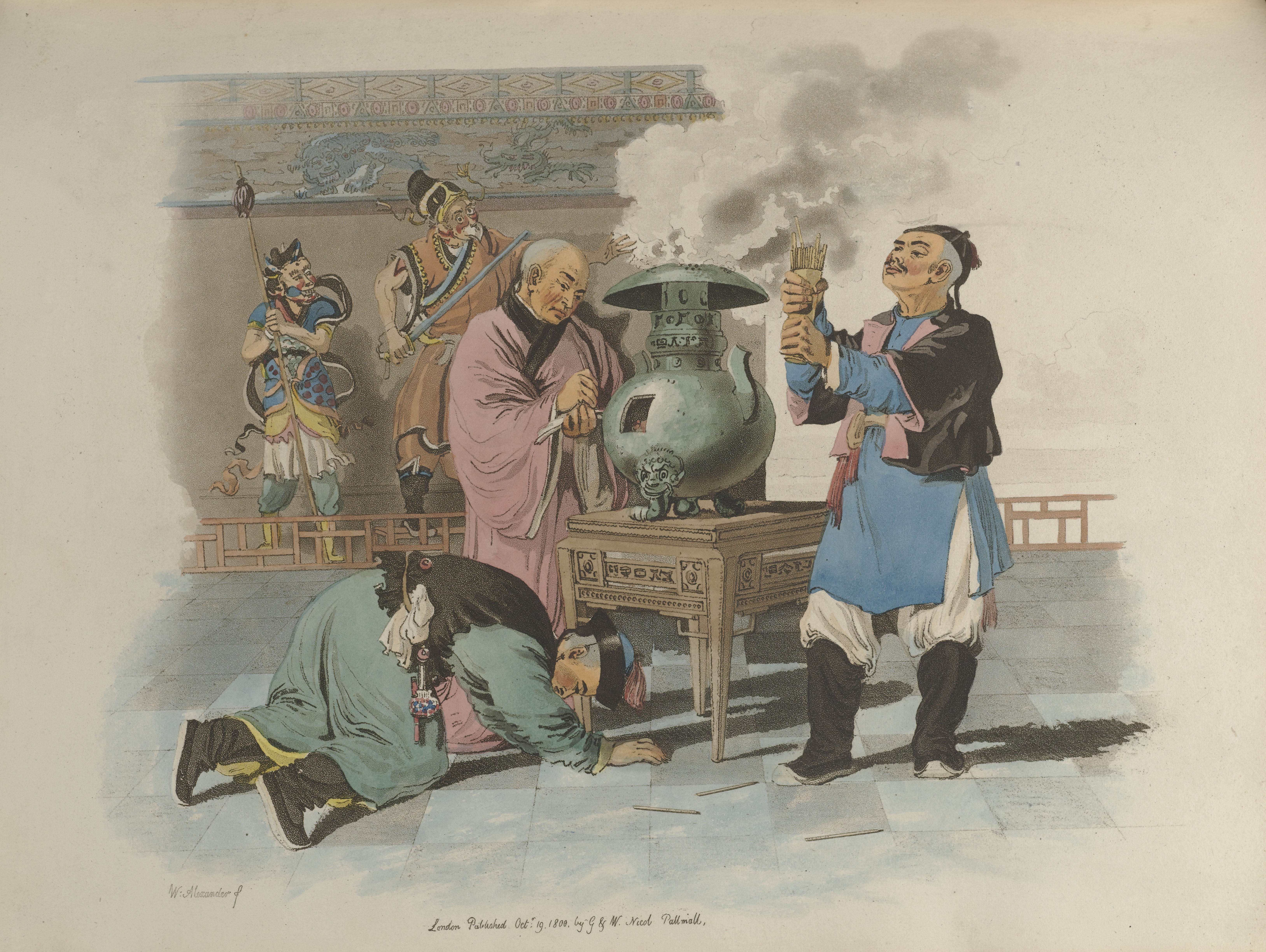 A Sacrifice at the Temple Rare Books Keywords: Clothes